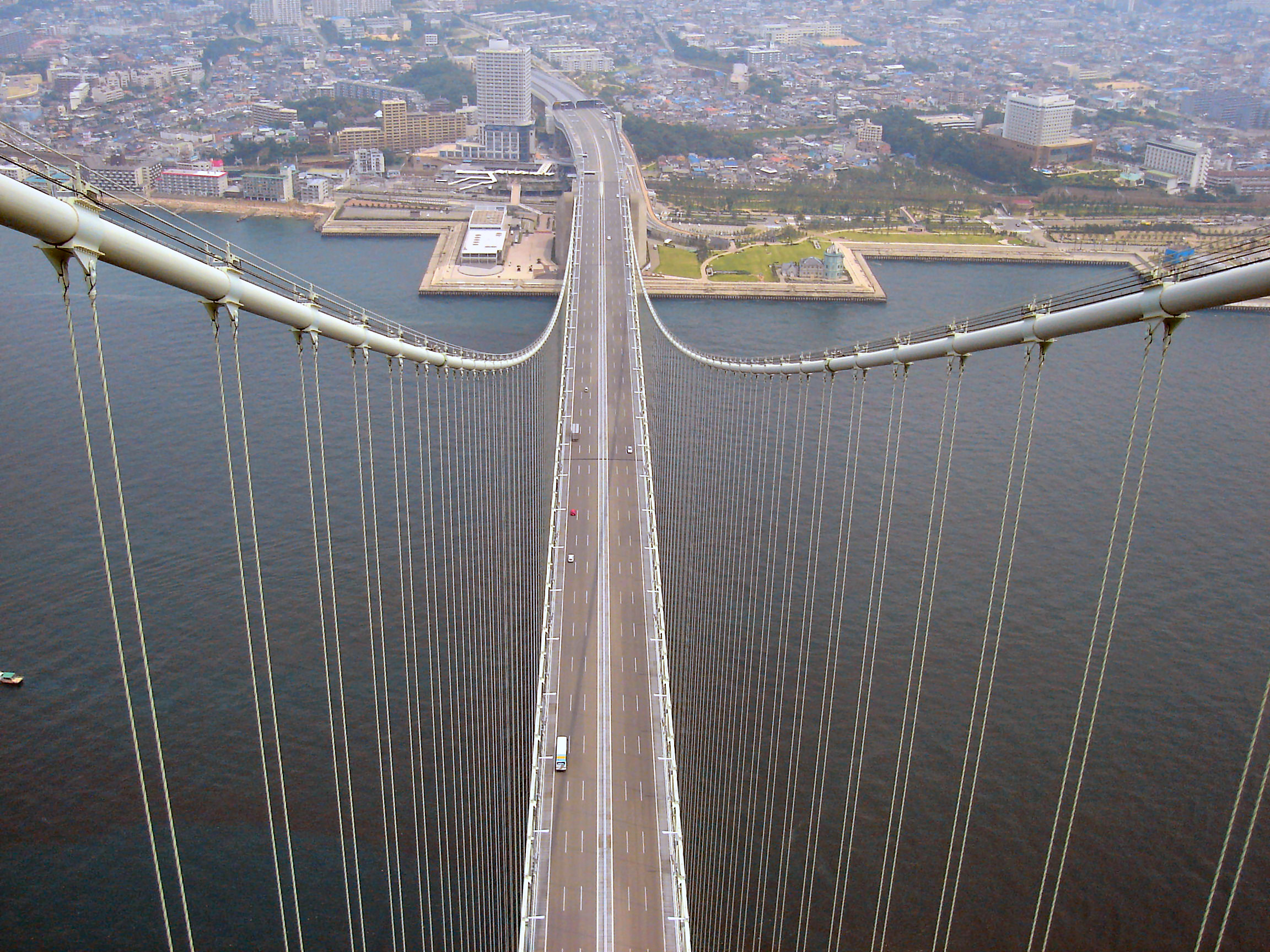 View from tower of Akashi-kaikyo oohashi.